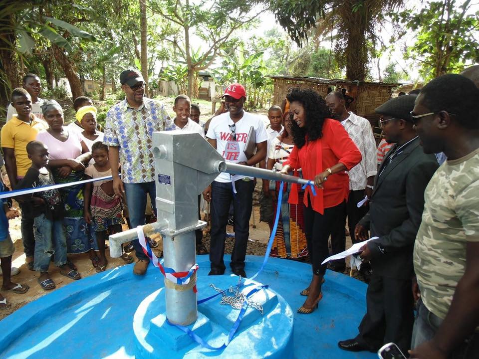 Mayor Gibson at a hand pump dedication ceremony